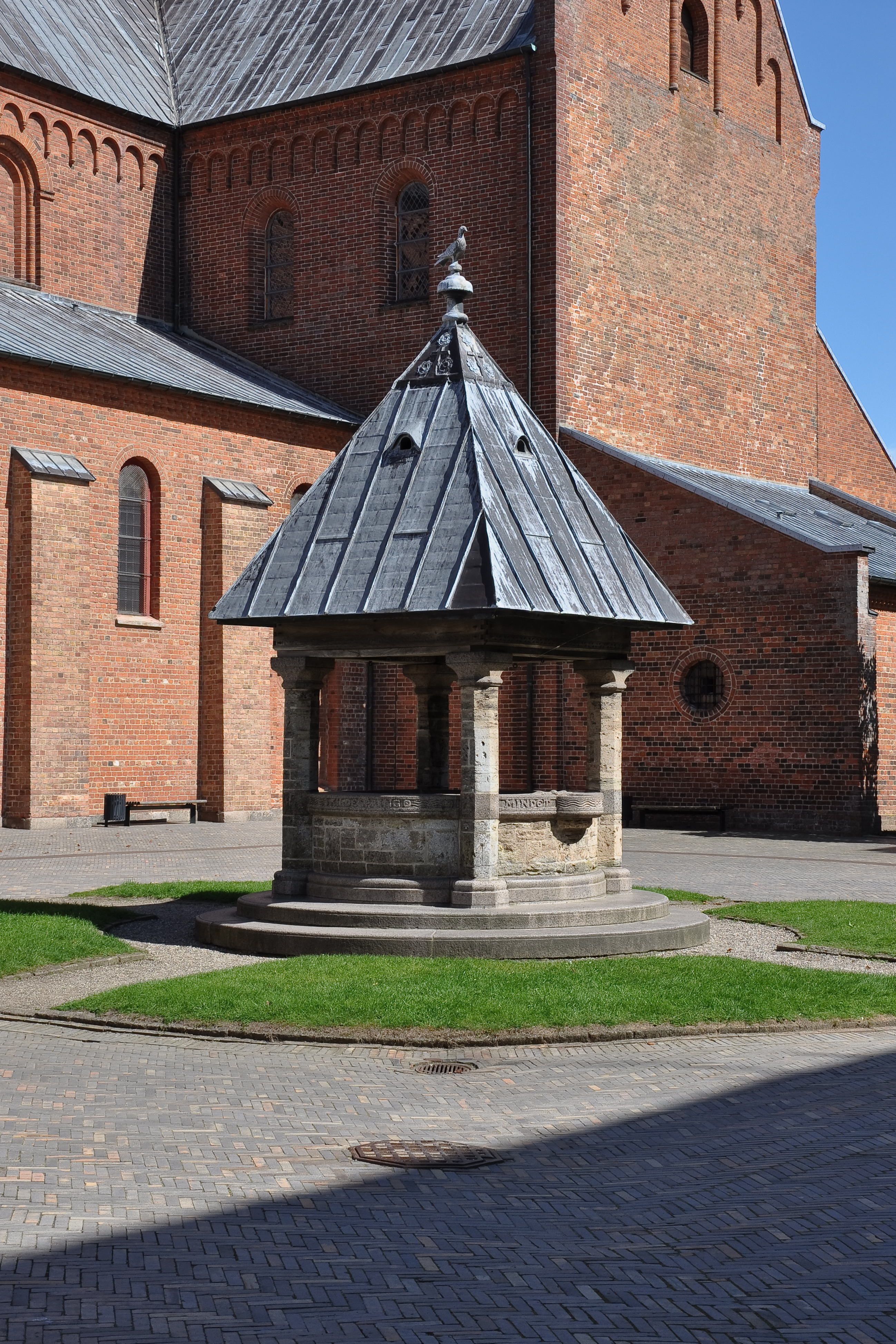 The Frater Well (Fraterbrønden) between Sorø Klosterkirke and the main building of Sorø Academy in Sorø, Denmark.